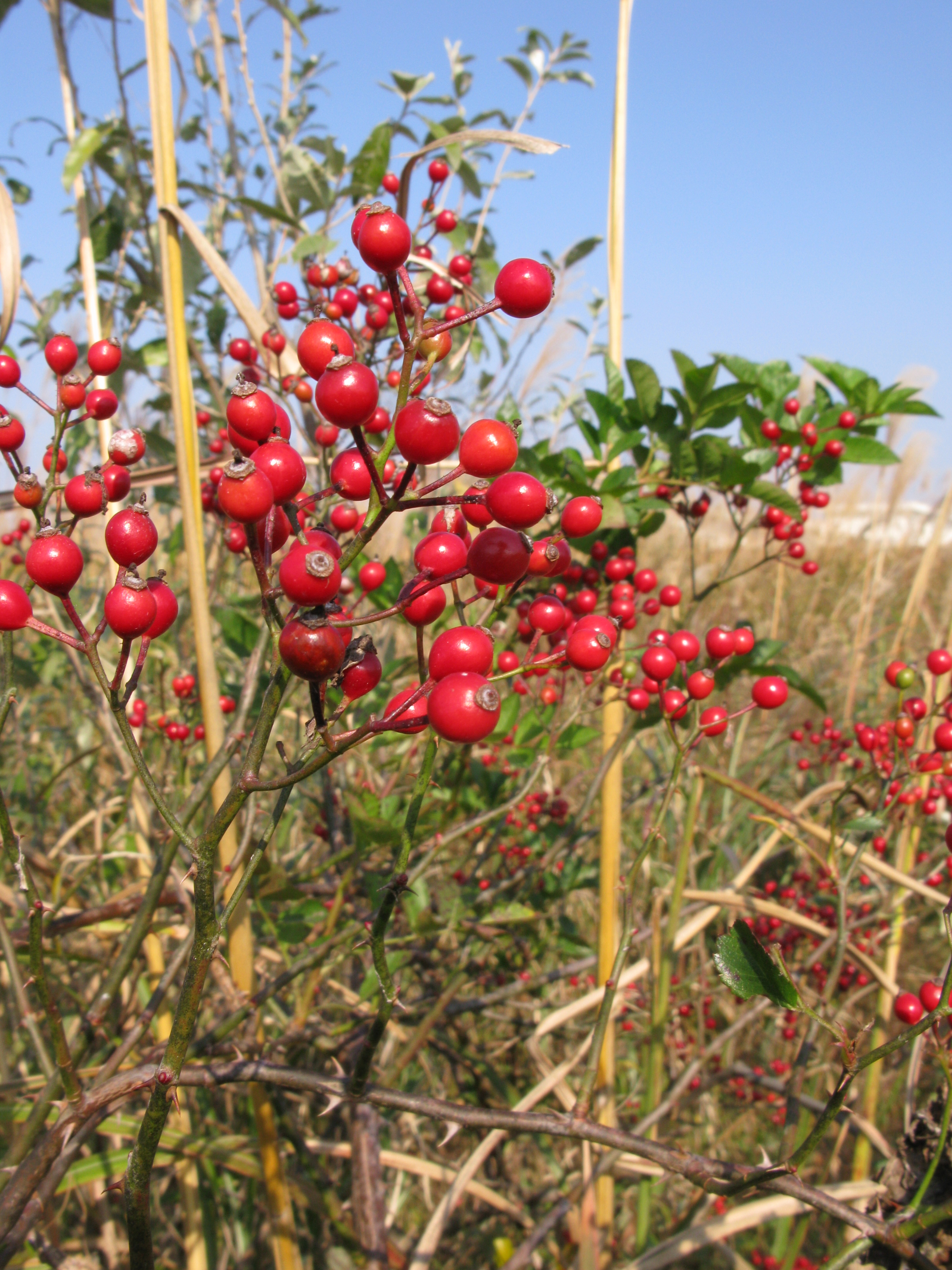 Rosa multiflora, Aizu area, Fukushima pref., Japan